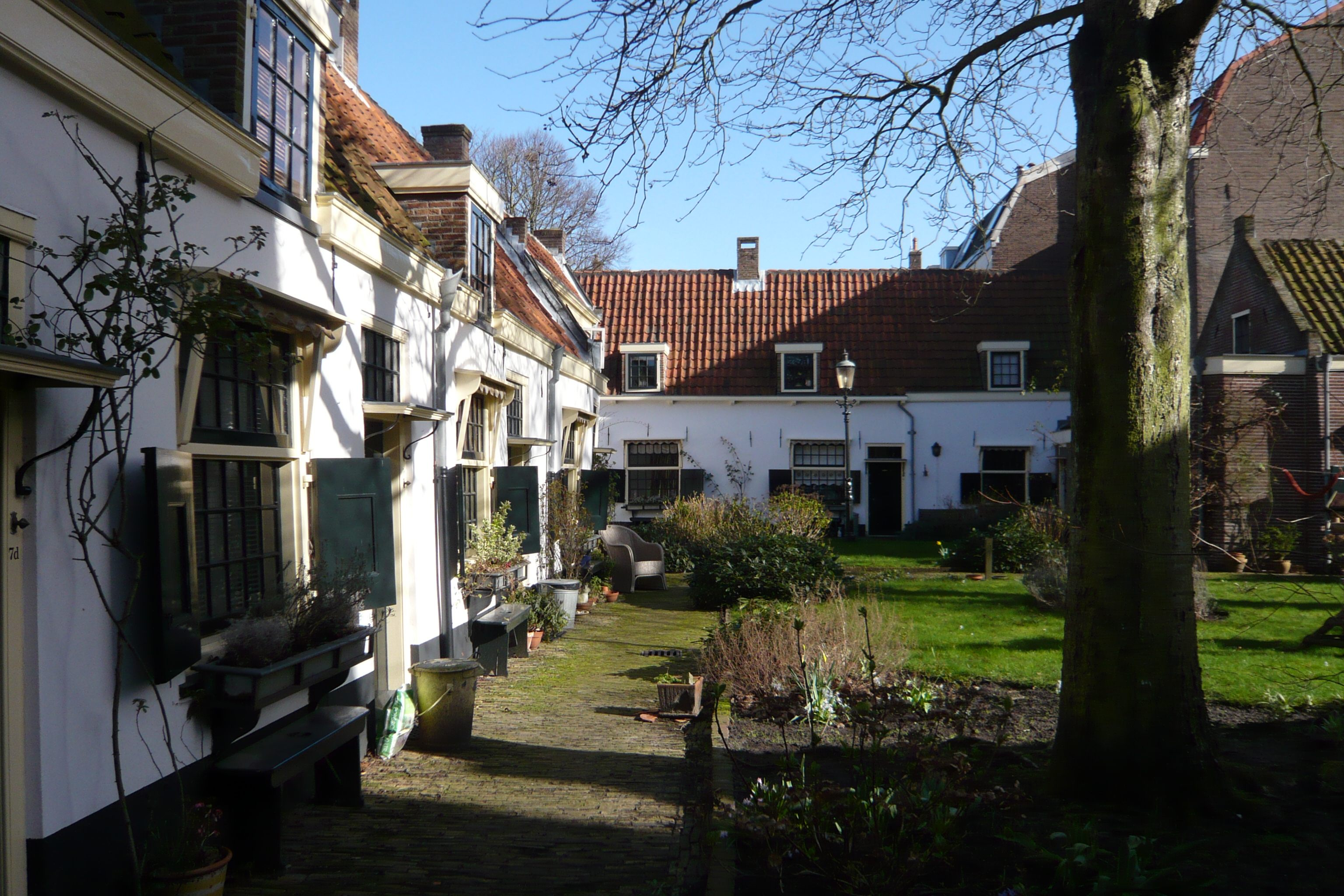 Hofje van Loo or 'Gasthuishofje'. Located at Barrevoetstraat 7. The hofje foundation dates from 1489, and the houses date from the 17th century. Due to the long iron gate at the streetside of the hofje, this is one of the most photographed hofje in Haarlem.